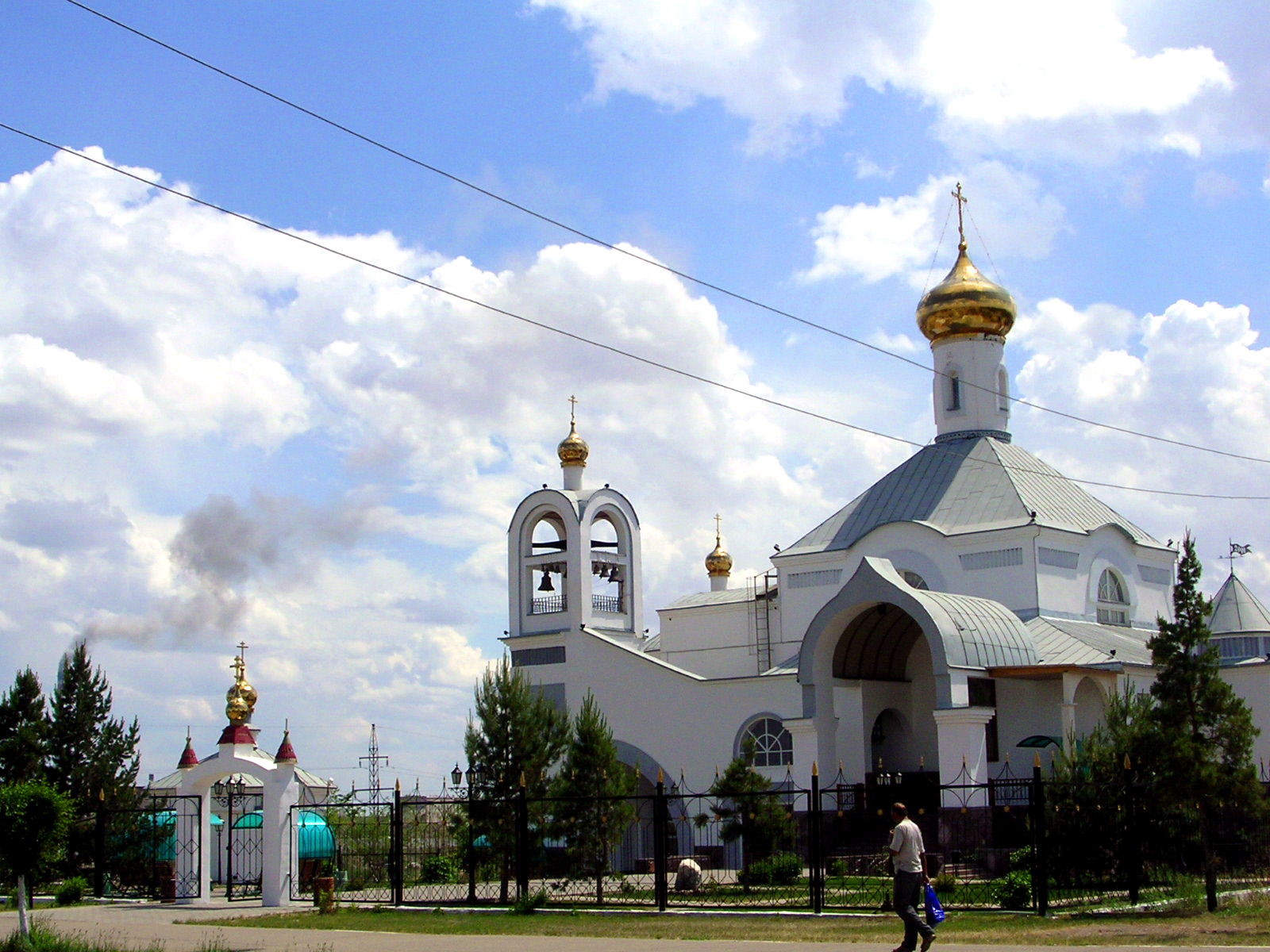 The Orthodox Church of St. Andreas in Zhezkazgan